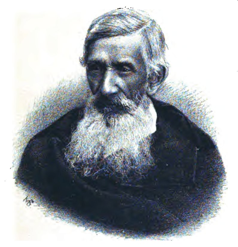 Izmail Sreznevsky